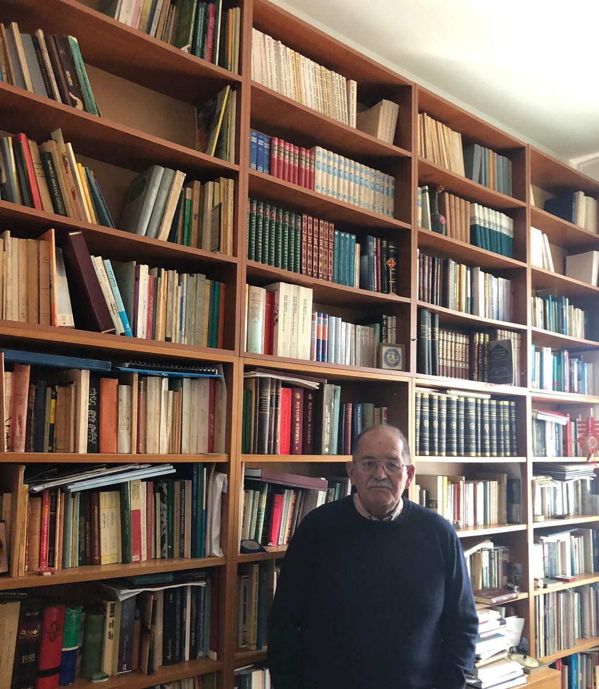 Dr Darko Tanasković, Serbian university professor of Oriental studies,writer, translator and academic.